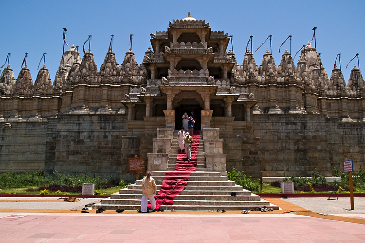 Ranakpur is a village near to the Sadri town in Pali district of Rajasthan in western India. It is located between Jodhpur and Udaipur, in a valley on the western flank of the Aravalli Hills. Ranakpur is easily accessed by road from Udaipur. Ranakpur is widely known for its marble Jain temple, and for a much older Sun Temple which lies opposite the former.